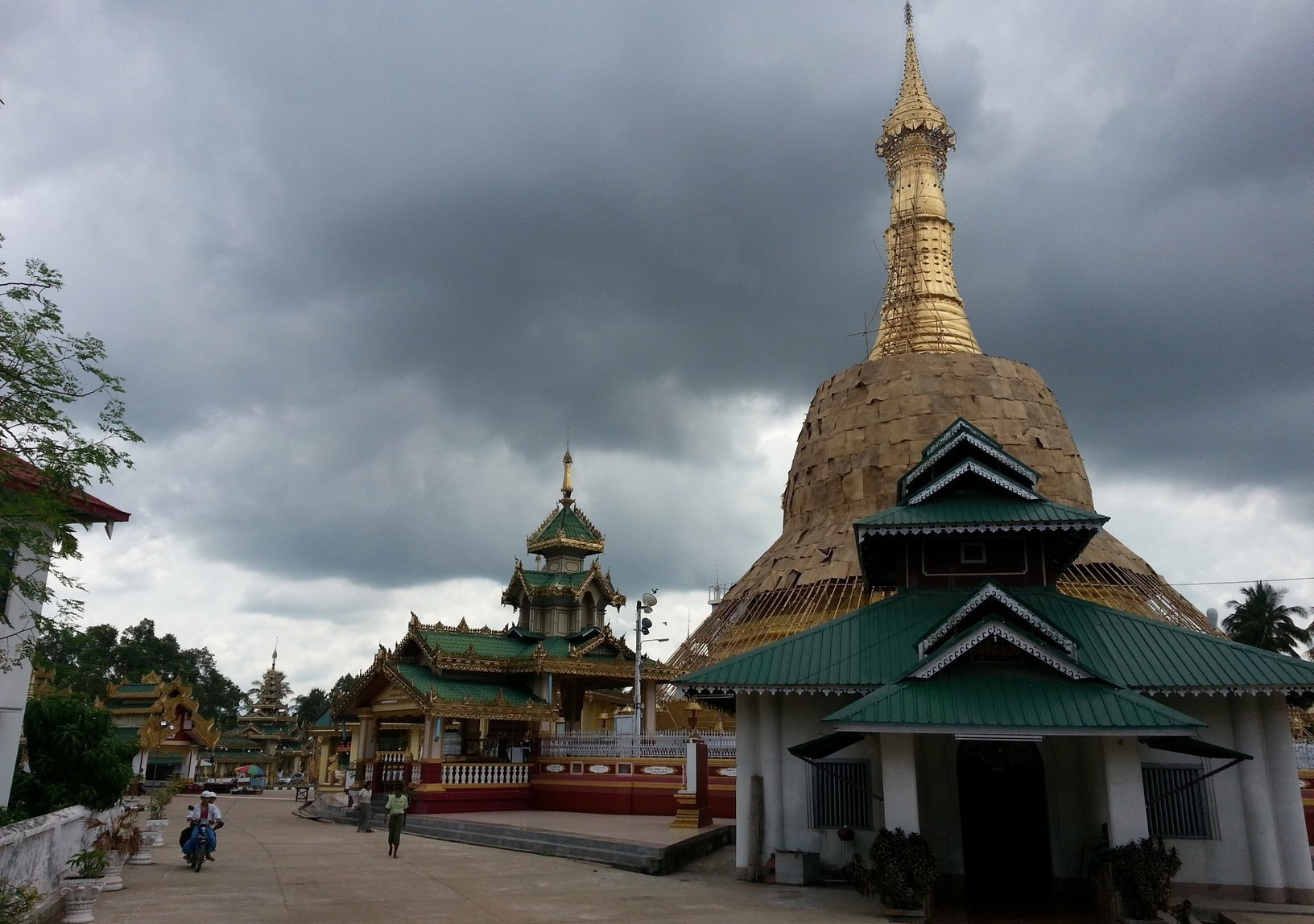 Dawei, Tennasserim Division